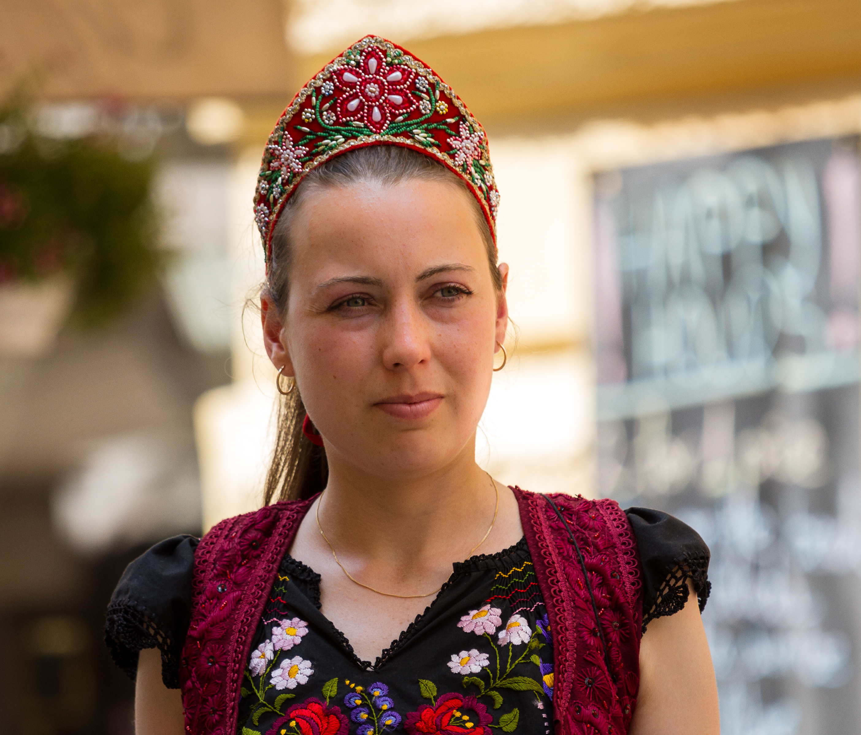 Hungarian woman in traditional dress. Budapest, June 2013.